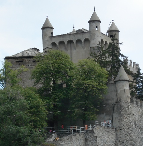 Main tower of St Pierre castle